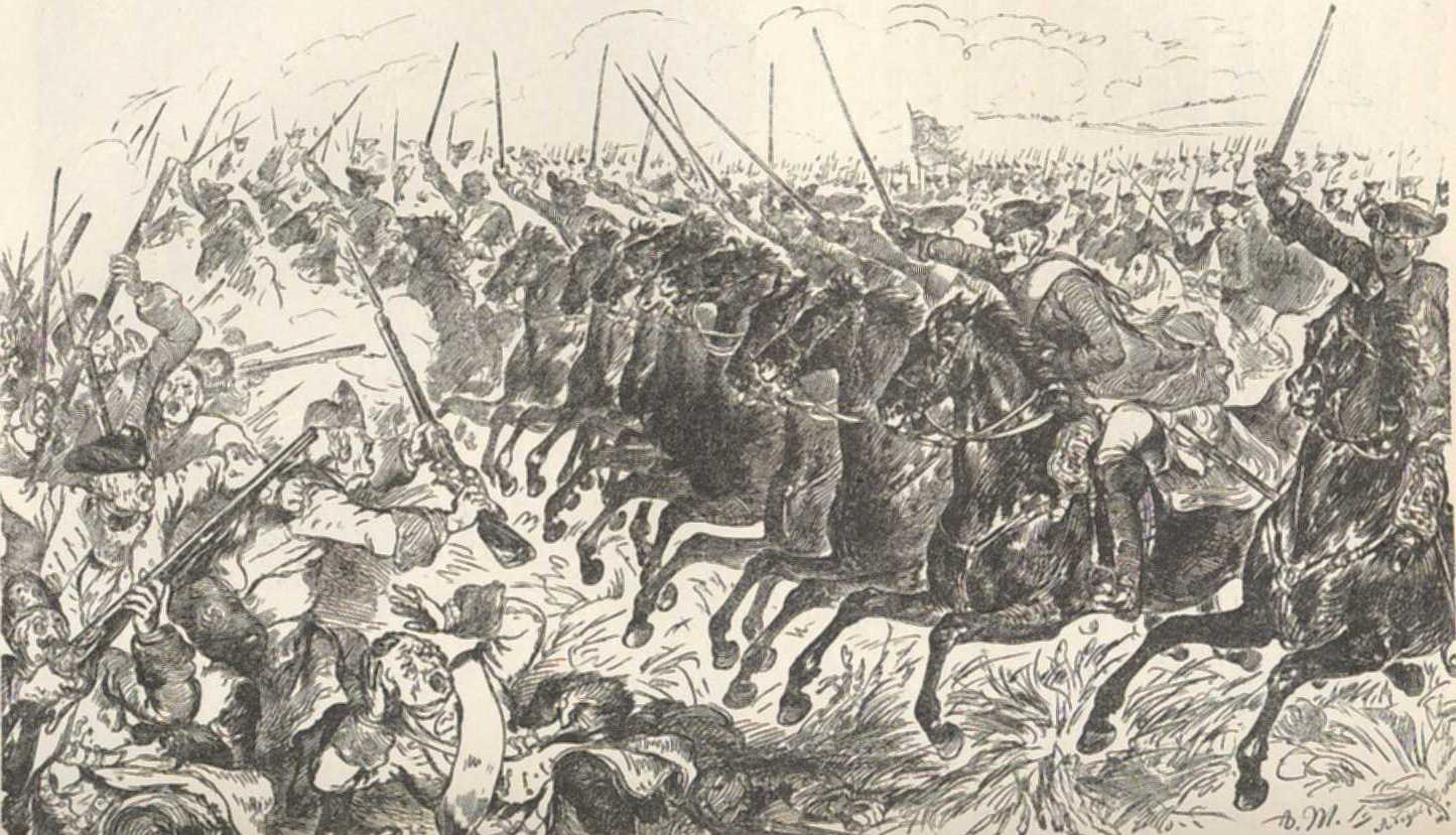 This drawing by Menzel shows the Bayreuth Dragoons in their famous charge at the Battle of Hohenfriedberg, on 4th June 1745. This was one of the most celebrated cavalry charges in history, and resulted in the capture of 2,500 Austrians and 66 flags.